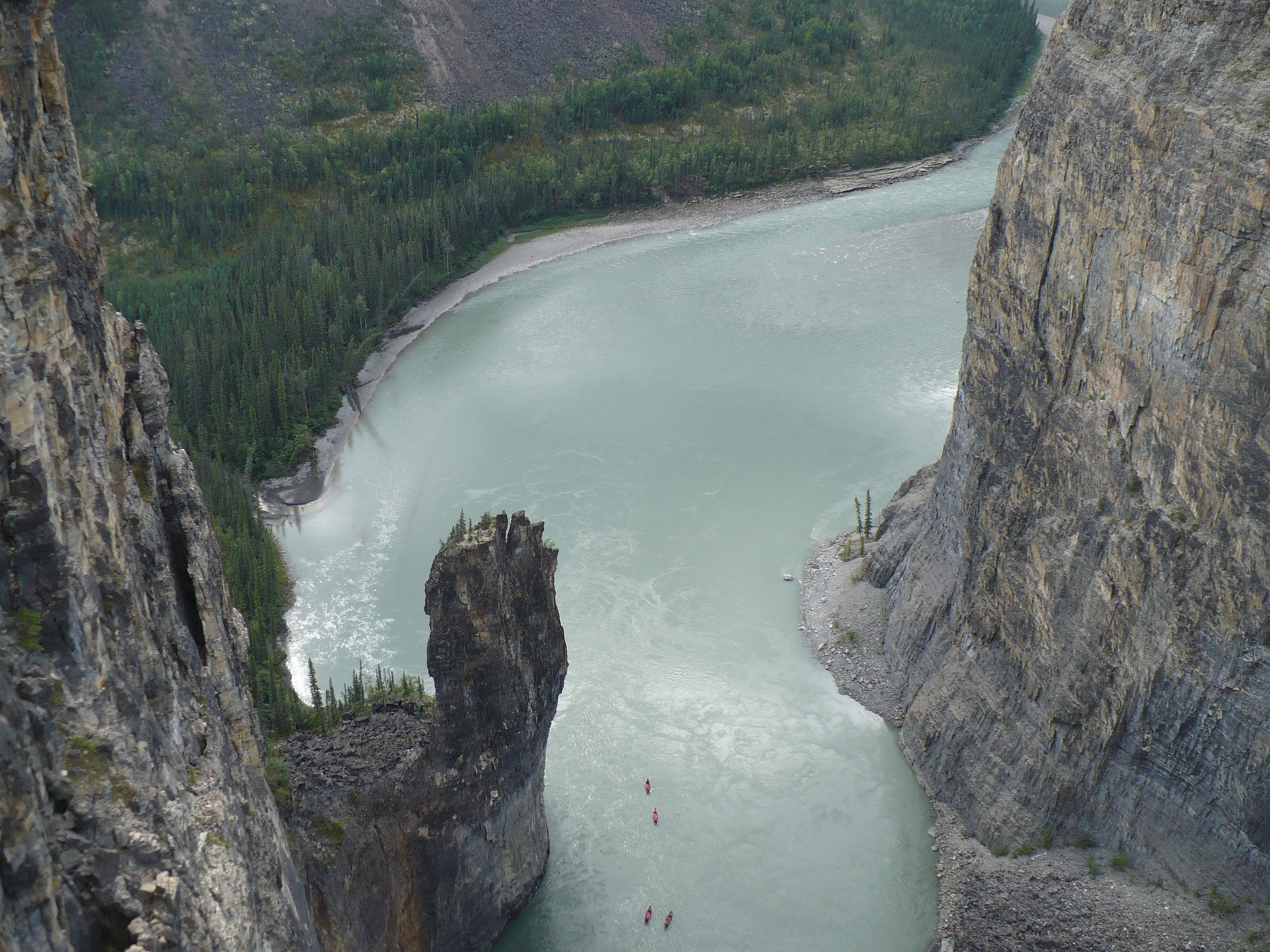 At the Gate, Second Canyon, Nahanni River, Northwest Territories, Canada